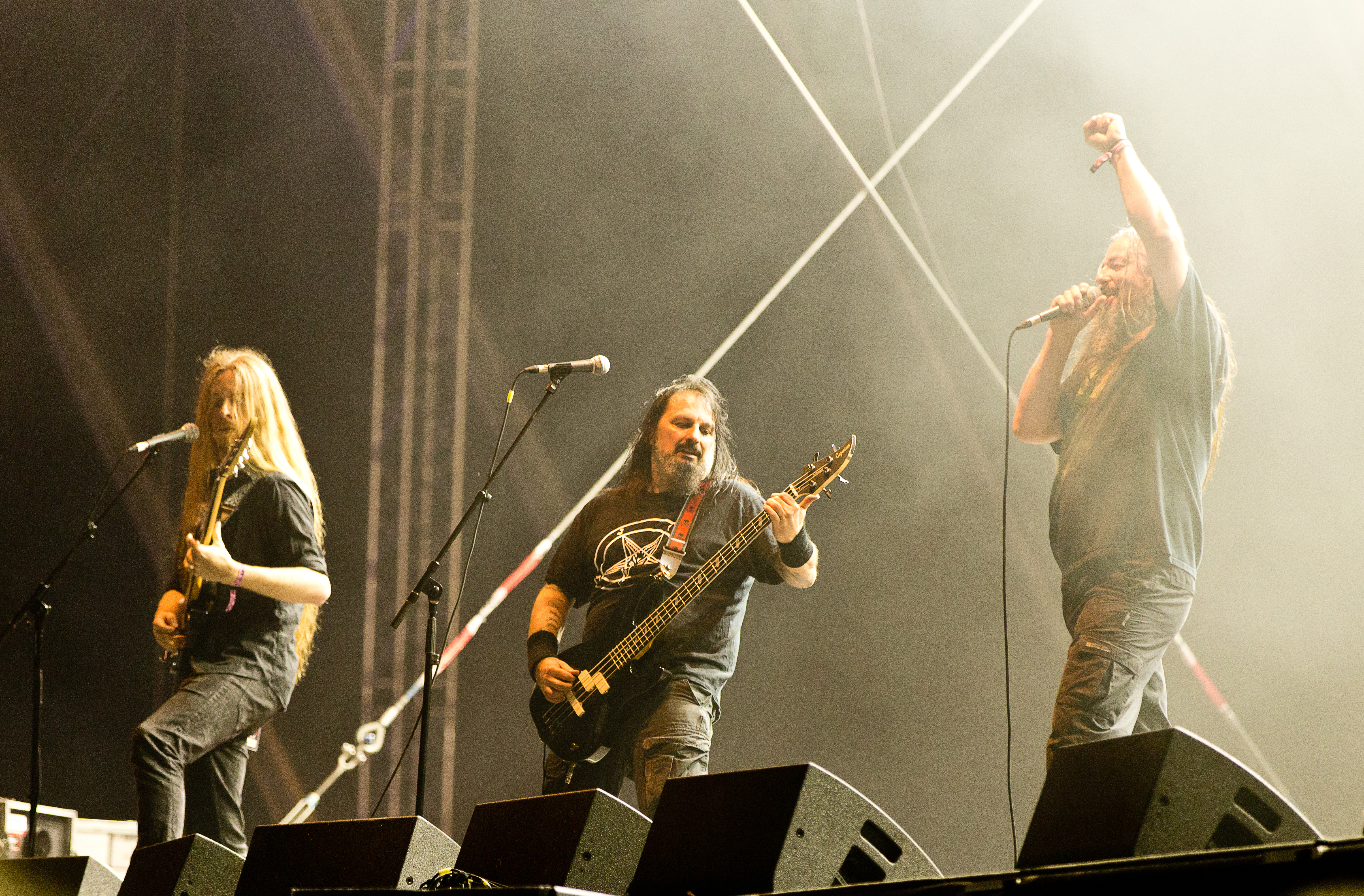 The British thrash metal band Onslaught at the Rockharz Open Air 2016 in Ballenstedt/Germany.